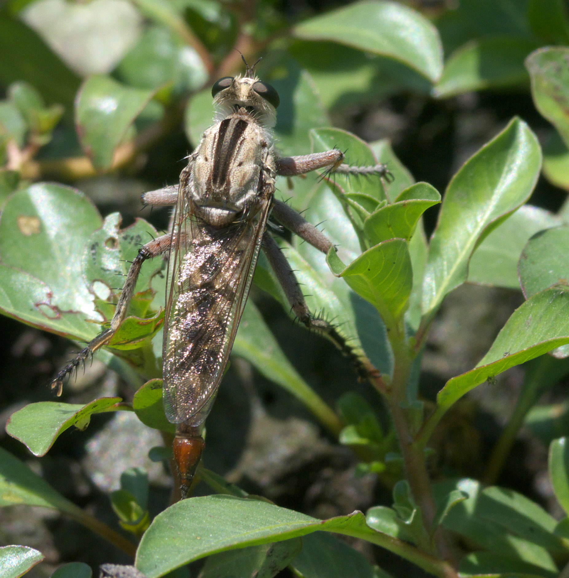 Triorla interrupta, Family: Robber Flies, ID Confidence: 98